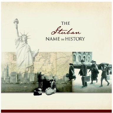 Korice knjige "The Stuban name in history", izdane 2007. godine.